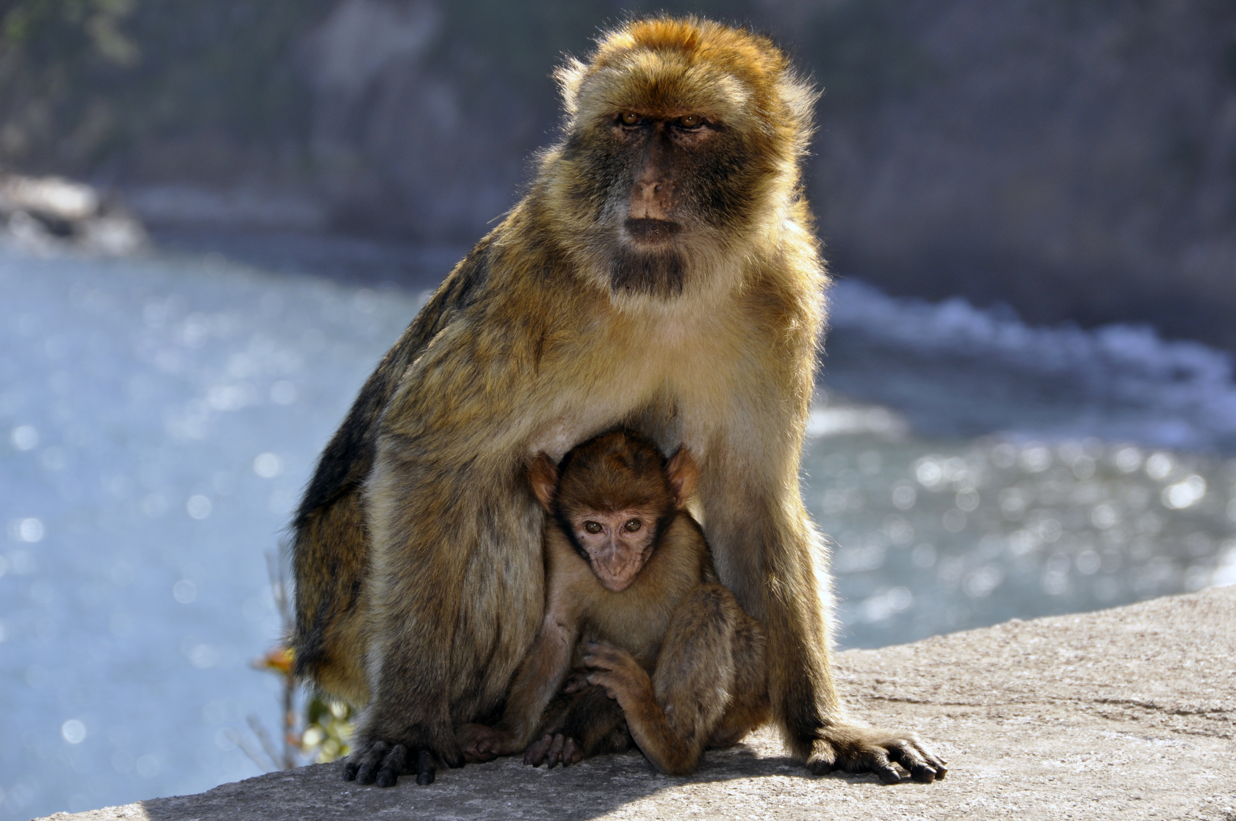 Female of the Barbary macaque with her child on Cape Carbon Bejaia (Algeria)